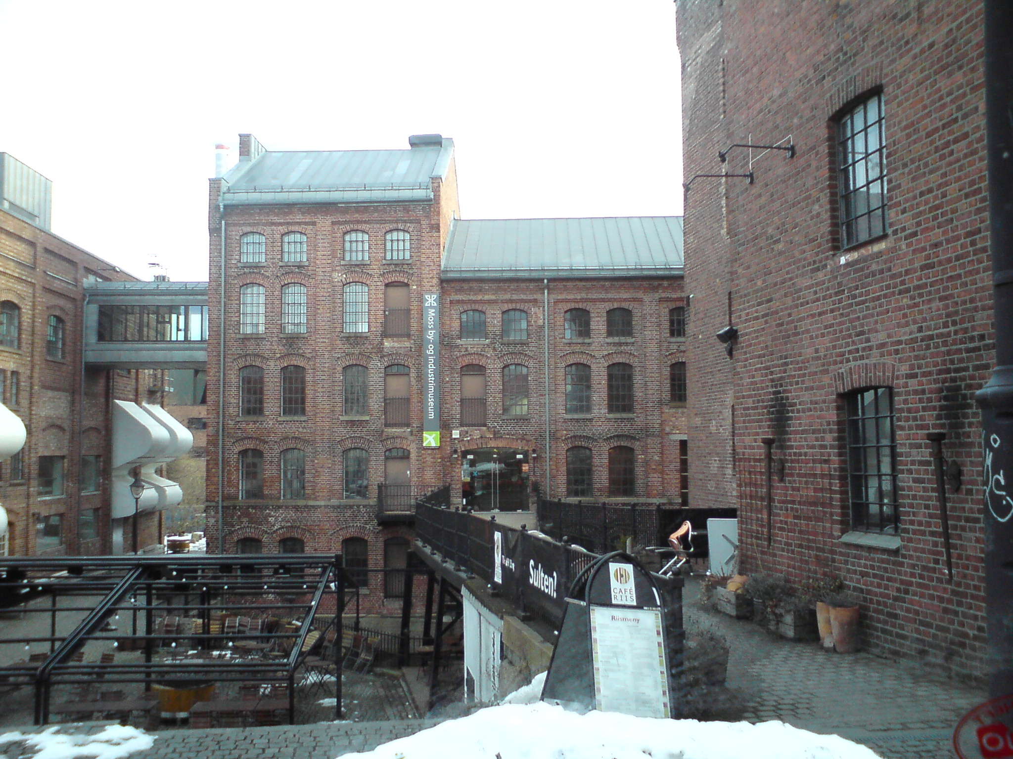 Museum in Møllebyen in Moss, Norway, a part of Østfoldmuseene.